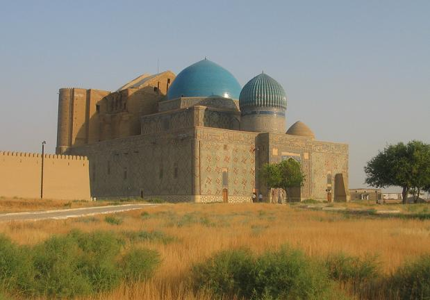 A view of the Mausoleum of Khoja Ahmed Yasavi.